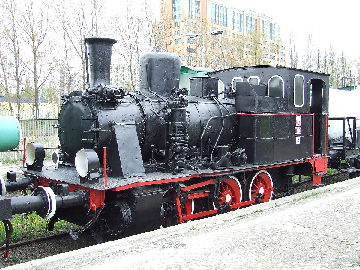 Steam locomotive TKh class, Muzeum Kolejnictwa, Warsaw. Built by Orenstein & Koppel, Berlin-Drewitz, 1920, factory no. 9336. The locomotive wears fictious PKP number TKh1-13, but actually it is not TKh1 class (Prussian T3), but it was built for the industry and used as TKh 9336.